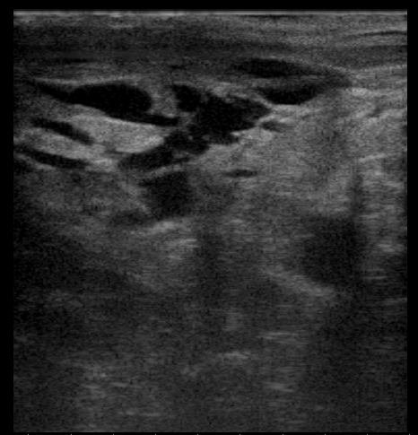 Medical ultrasound image. Provided as-is. Please feel free to categorise, add description, crop.